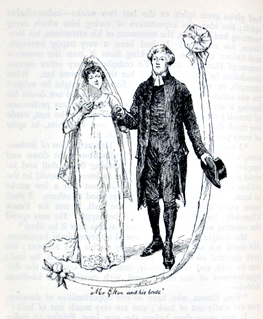 "Mr Elton and his bride". Austen, Jane. Emma. London: George Allen, 1898, page 272.